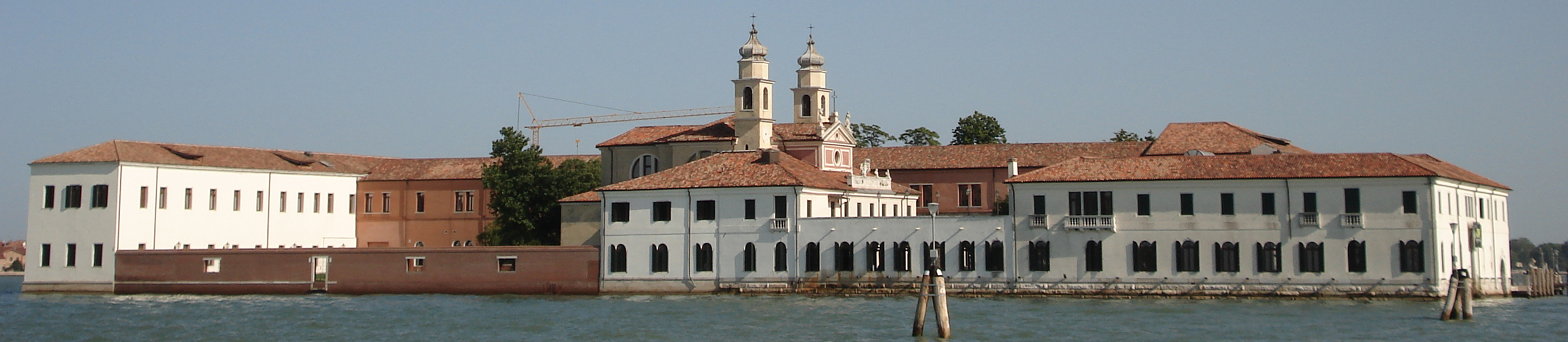 View of the island of San Servolo in the Venice lagoon. Cut down from a photo taken by me in summer 2007 from the number 20 ACTV water bus approaching the island.